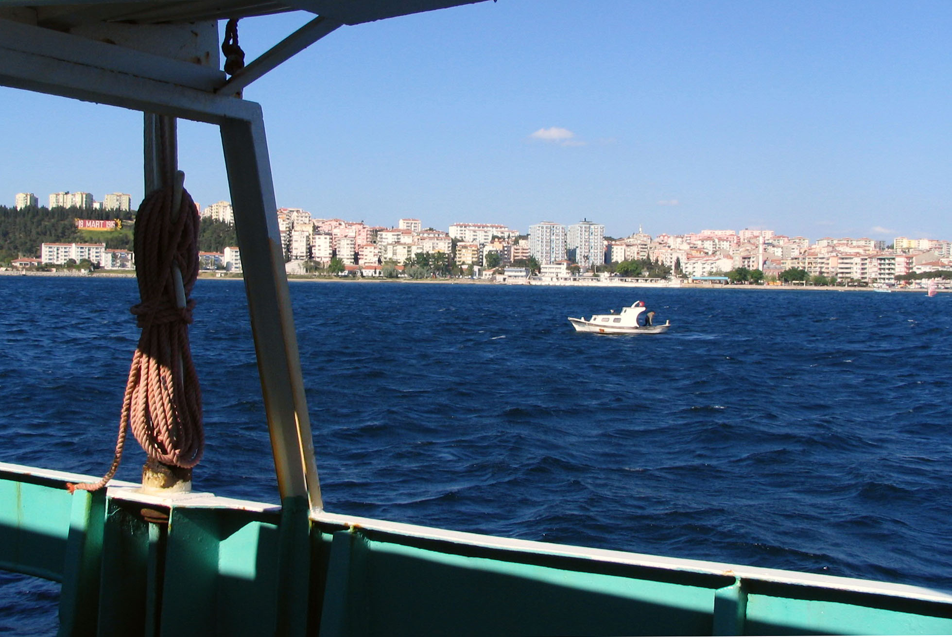 Crossing the Dardanelles to Çanakkale, Turkey. May 2006. Photo by Winstonza talk